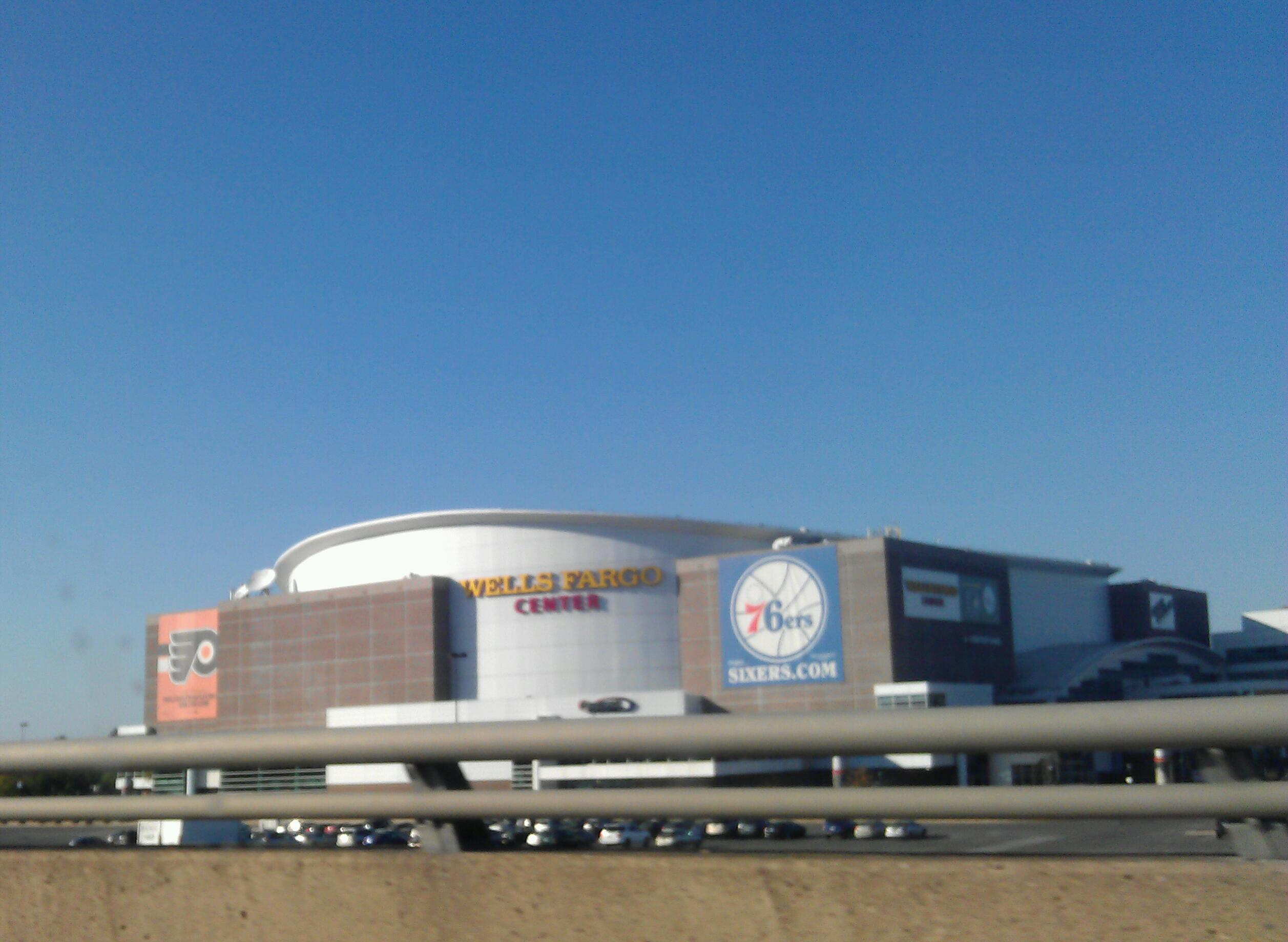 A view at :en:Wells Fargo Center in Philadelphia.